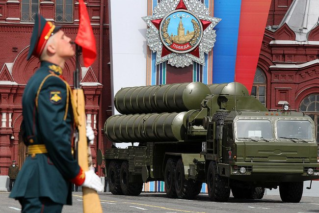 Die Militärparade zum 66-jährigen Jubiläum des Sieges in Moskau im Jahr 2011.